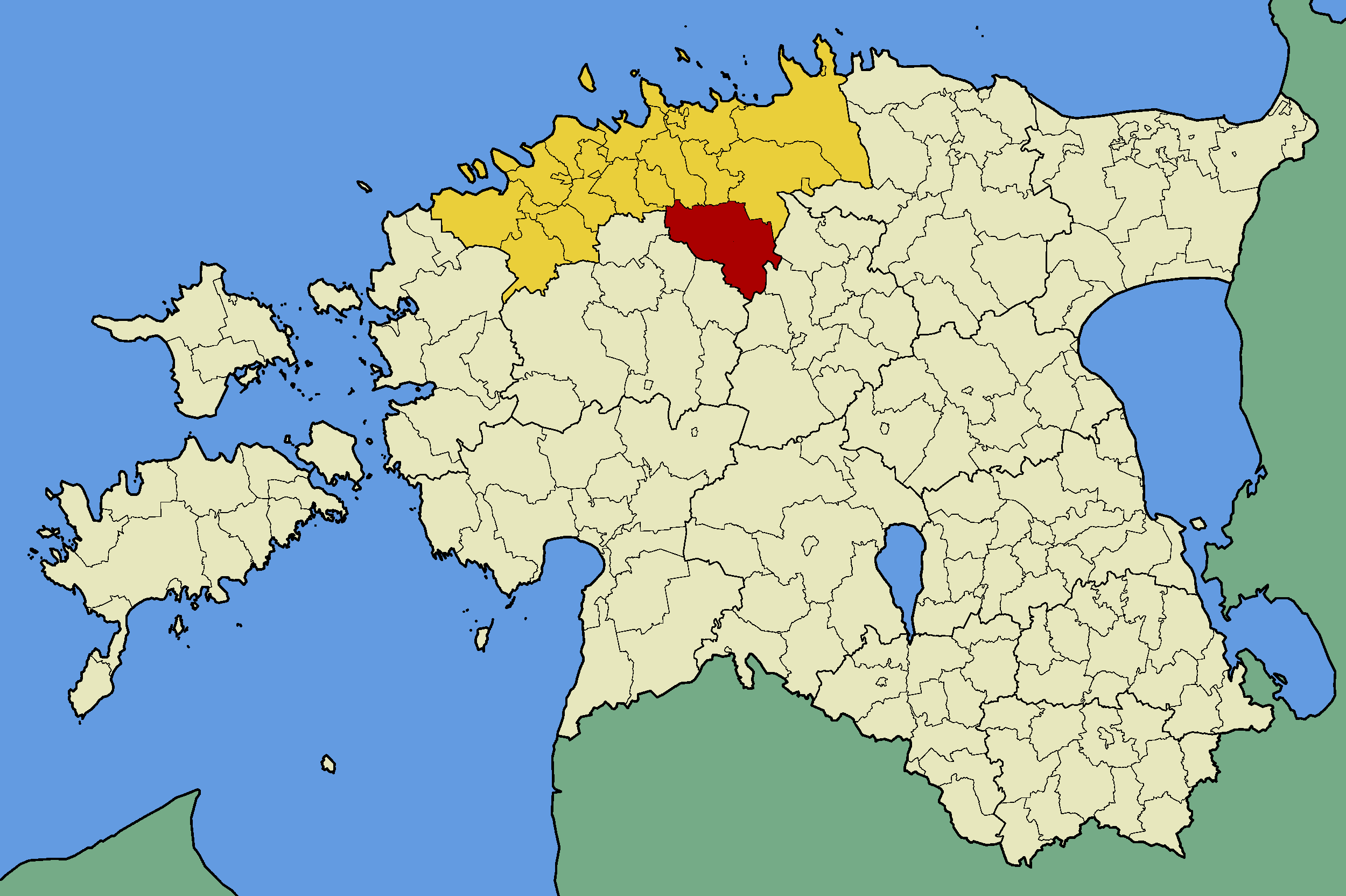 Map of Estonia with borders of municipalities (parishes). Harju county and Kose municipality (parish) emphasized.